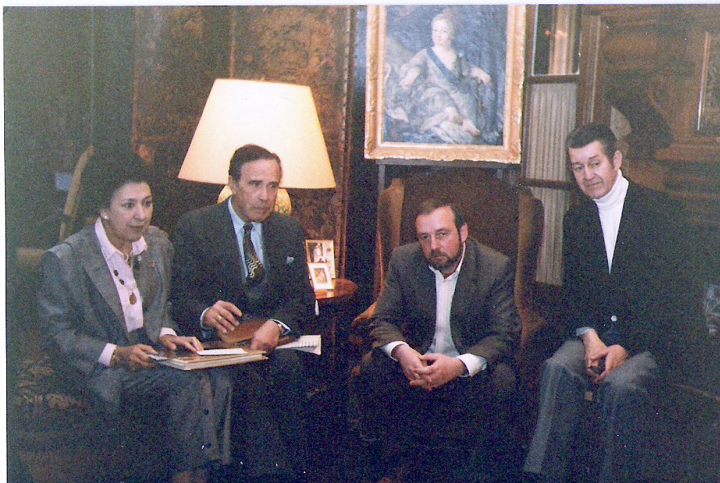 a meeting of the poets of the review "Vents et Marées